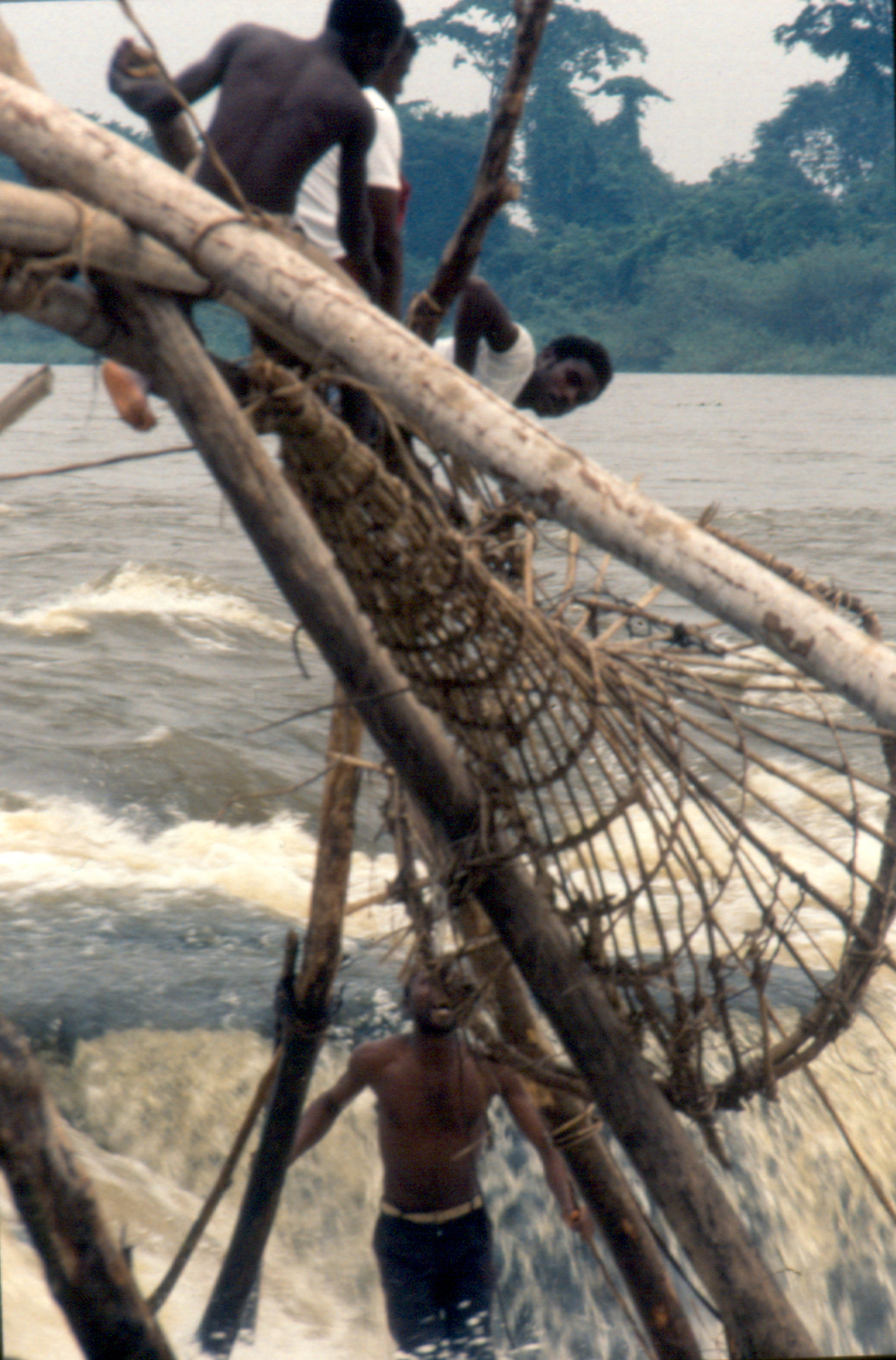 The Boyoma Falls rapids/cataracts of the Lualaba River — near Kisangani, in the Democratic Republic of the Congo. The Wagenya peoples are indigenous fishermen who have developed a unique technique to fish in the river. They build a huge system of wooden tripods across the river. These tripods are anchored on the holes naturally carved in the rock by the water current. To these tripods are anchored large baskets, which are lowered in the rapids to “sieve” the waters for fish. It is a very selective fishing method, as these baskets are quite big and only large fish are entrapped.